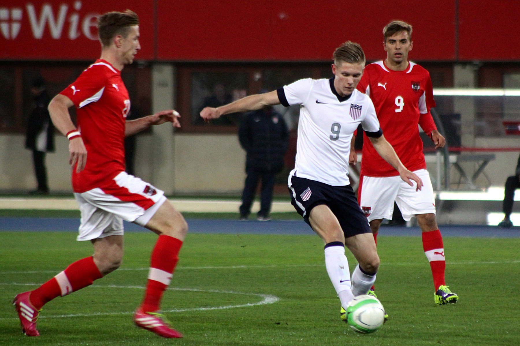 Friendly-match Austria (red shirts) vs. USA (white shirts) (1:0) in the Ernst-Happel-Stadion in Vienna at 2013-03-22. – The photo shows Marc Janko, Aron Johannsson and Lukas Hinterseer.